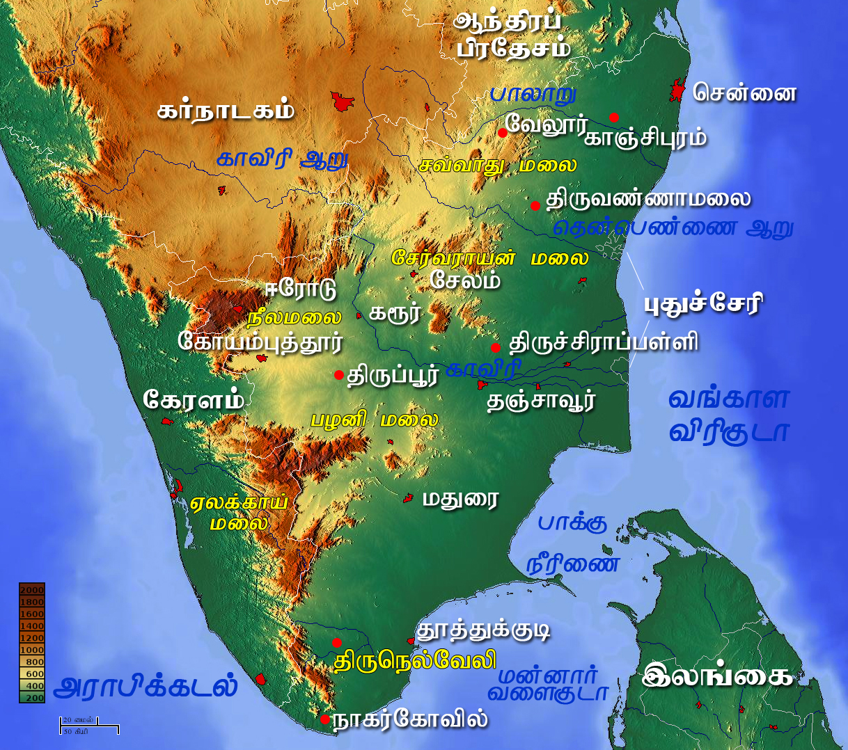 Topographic map of Tamil Nadu